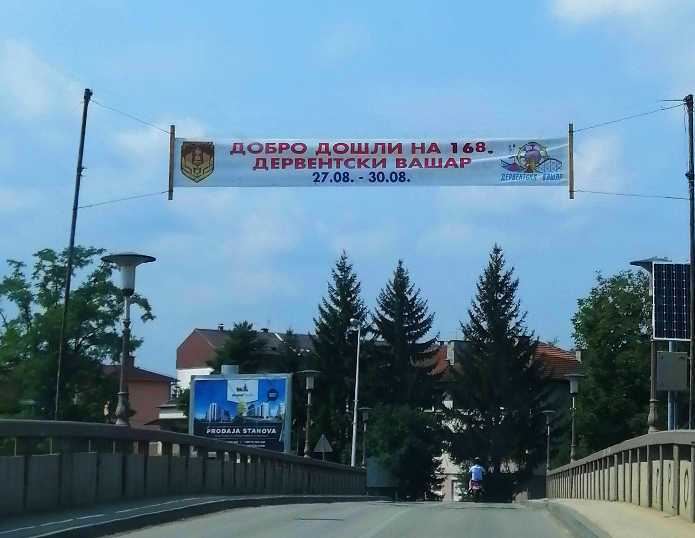 Transparent za Derventski vašar na starom mostu u Derventi